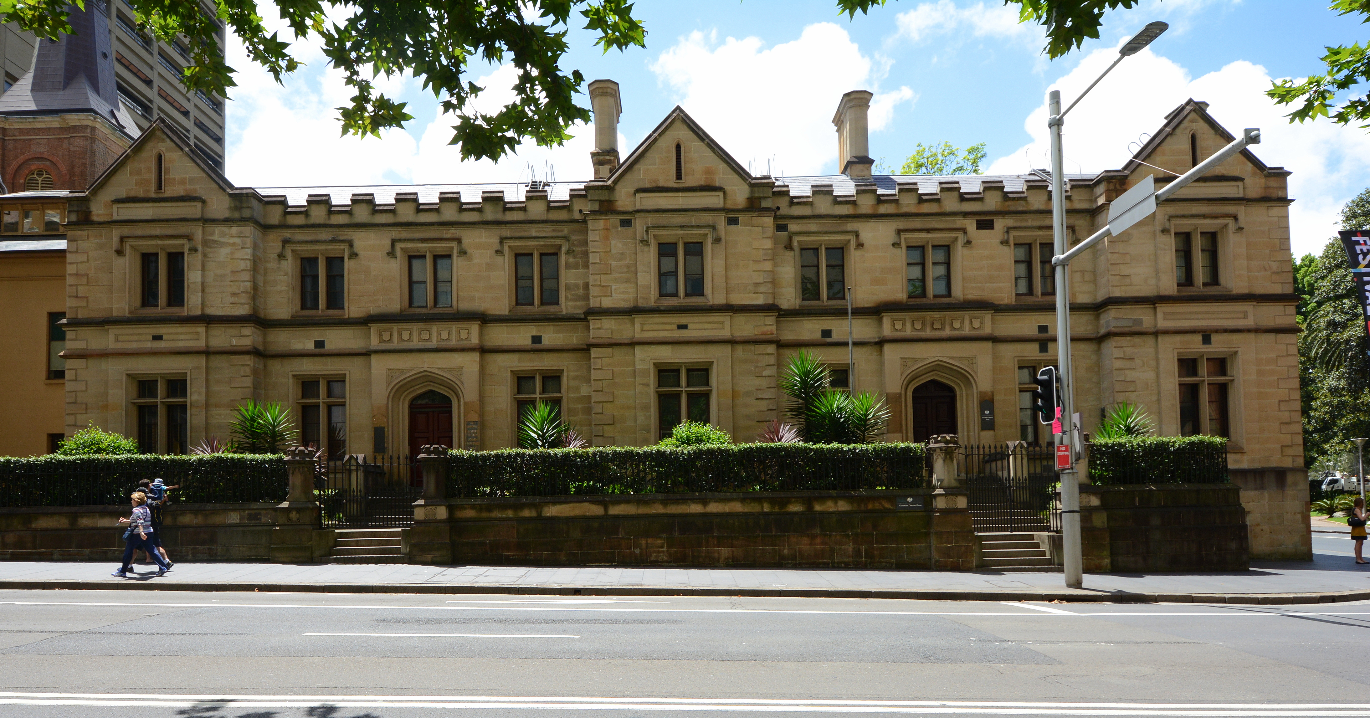 Court Five (formerly old registry), Supreme Court of New South Wales, Sydney